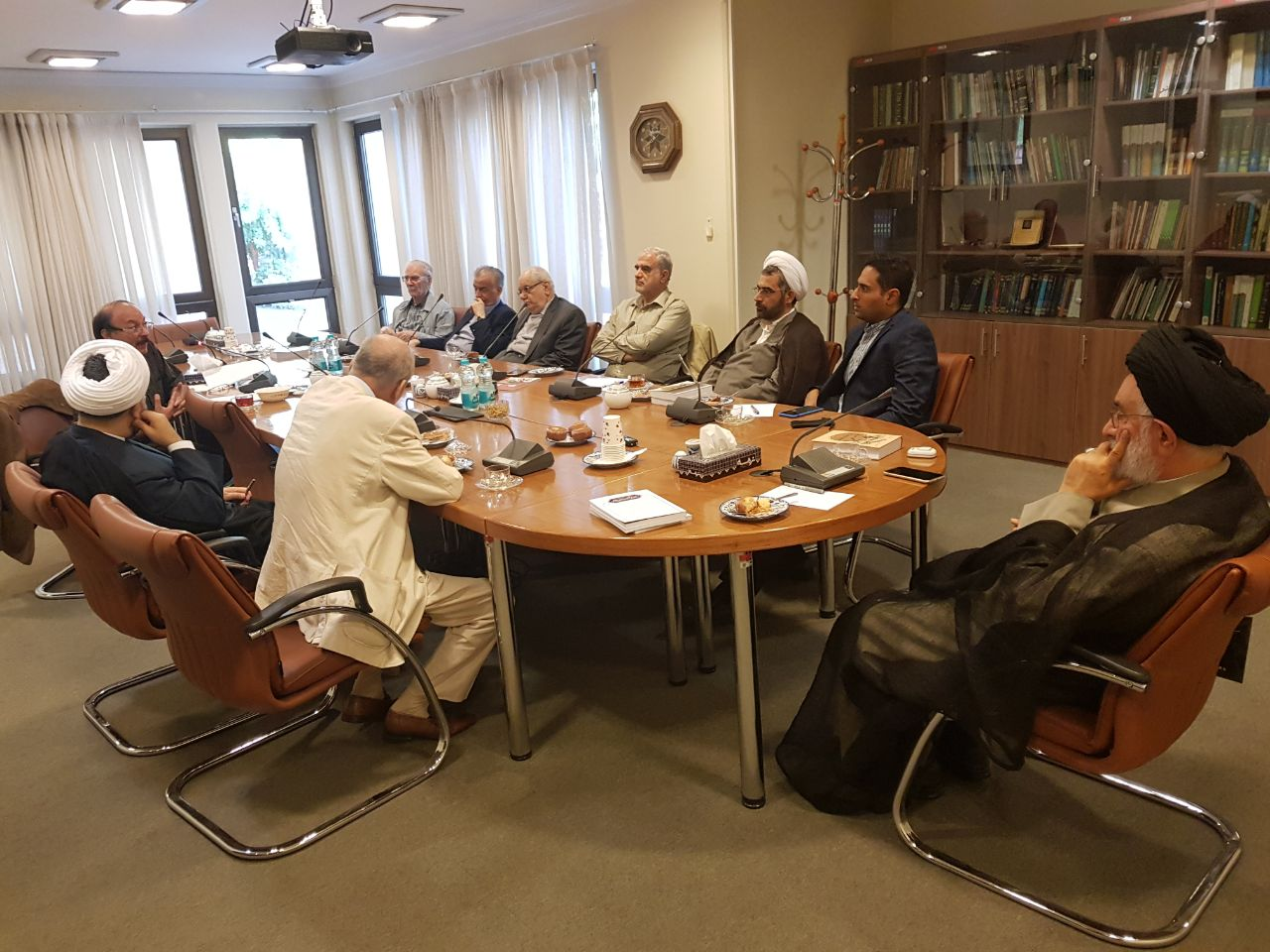 Review of the book Iranian Don Quixotes at the Iranian Academy of Sciences